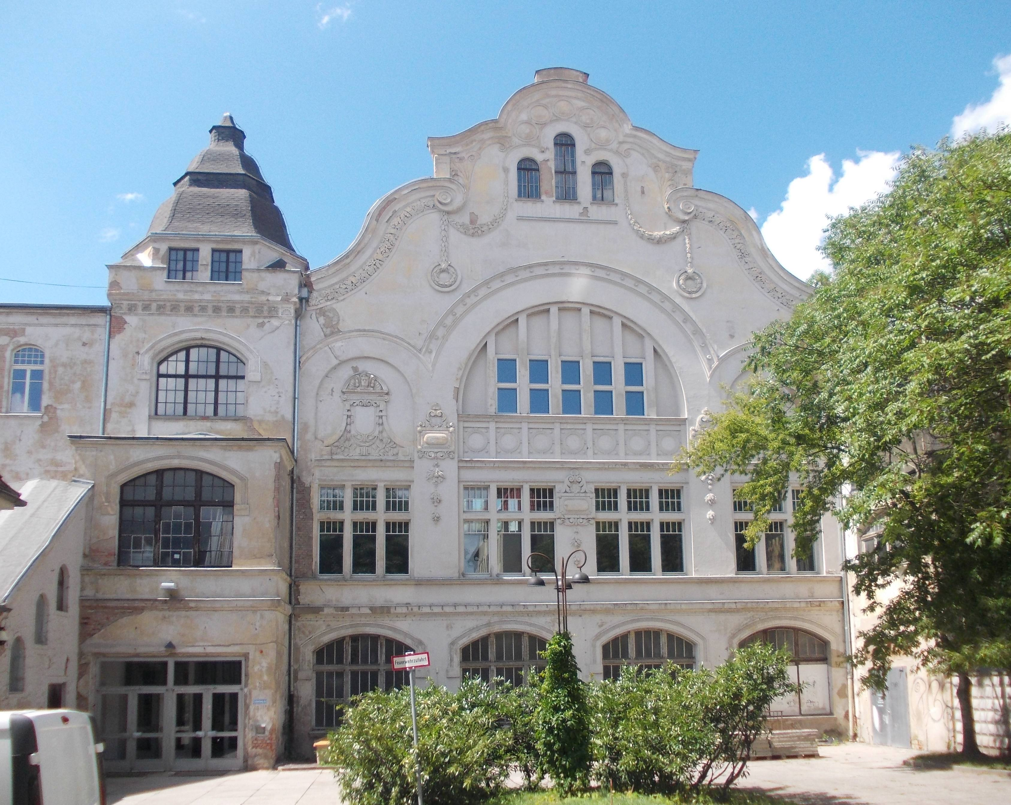 Volkspark in Halle/Saale (Saxony-Anhalt), view from Kleine Gosenstraße